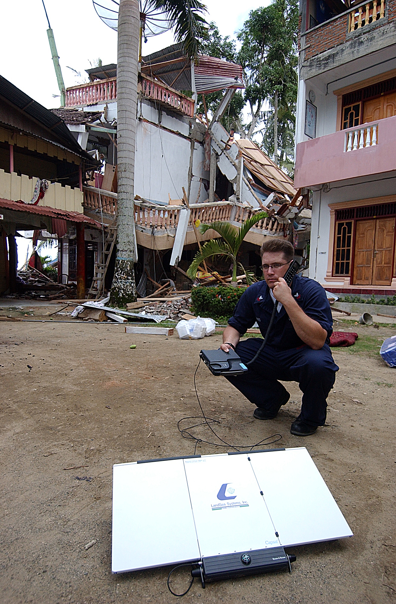 Inmarsat satellite telephone in use, Nias, Indonesia (April 4, 2005) — Information System Technician 1st Class Josh Davis performs a communications check with an Inmarsat satellite telephone system to establish communications with the Military Sealift Command (MSC) hospital ship USNS Mercy (T-AH 19) and the advance team upon arrival in Nias, Indonesia. At the request of the government of Indonesia, the Military Sealift Command (MSC) hospital ship USNS Mercy (T-AH 19) and the MSC combat stores ship USNS Niagara Falls (T-AFS 3) are on station off the coast of Nias, providing assistance as determined appropriate and necessary with earthquake disaster relief efforts and provide medical assistance to those in need. U.S. Navy photo by Photographer's Mate 2nd Class Jeffrey Russell (RELEASED)